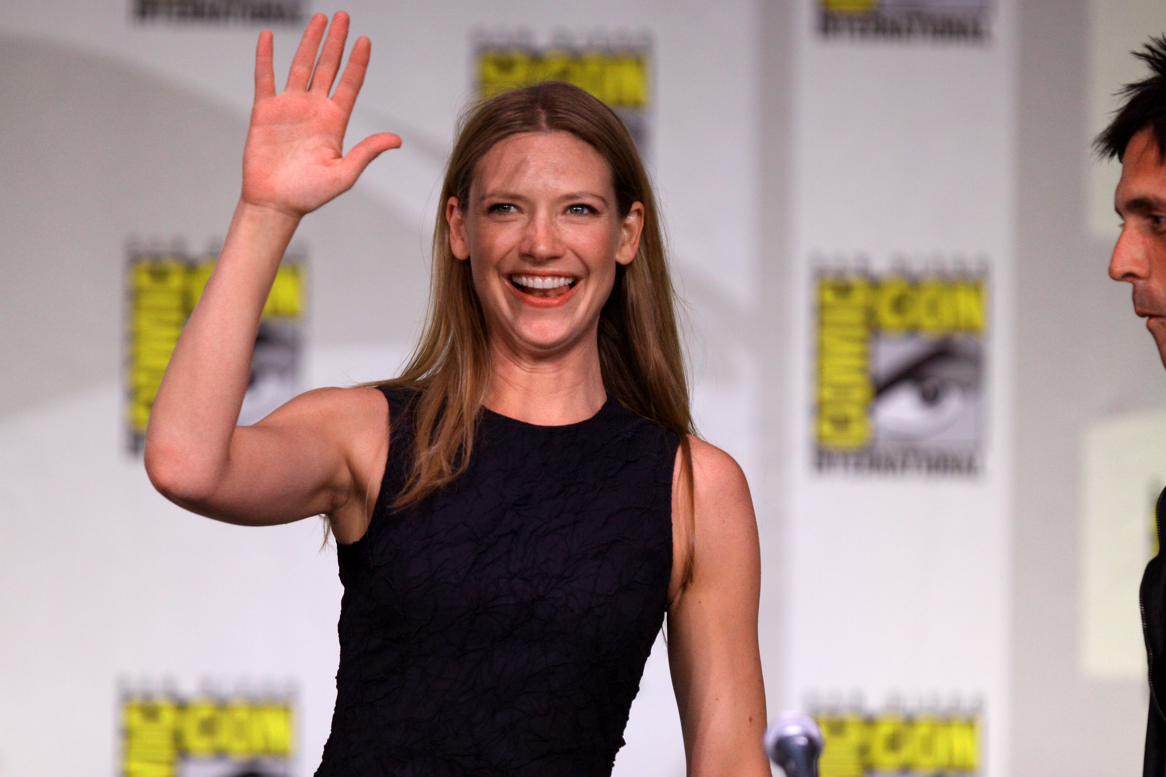 Anna Torv at the 2011 San Diego Comic-Con International in San Diego, California.